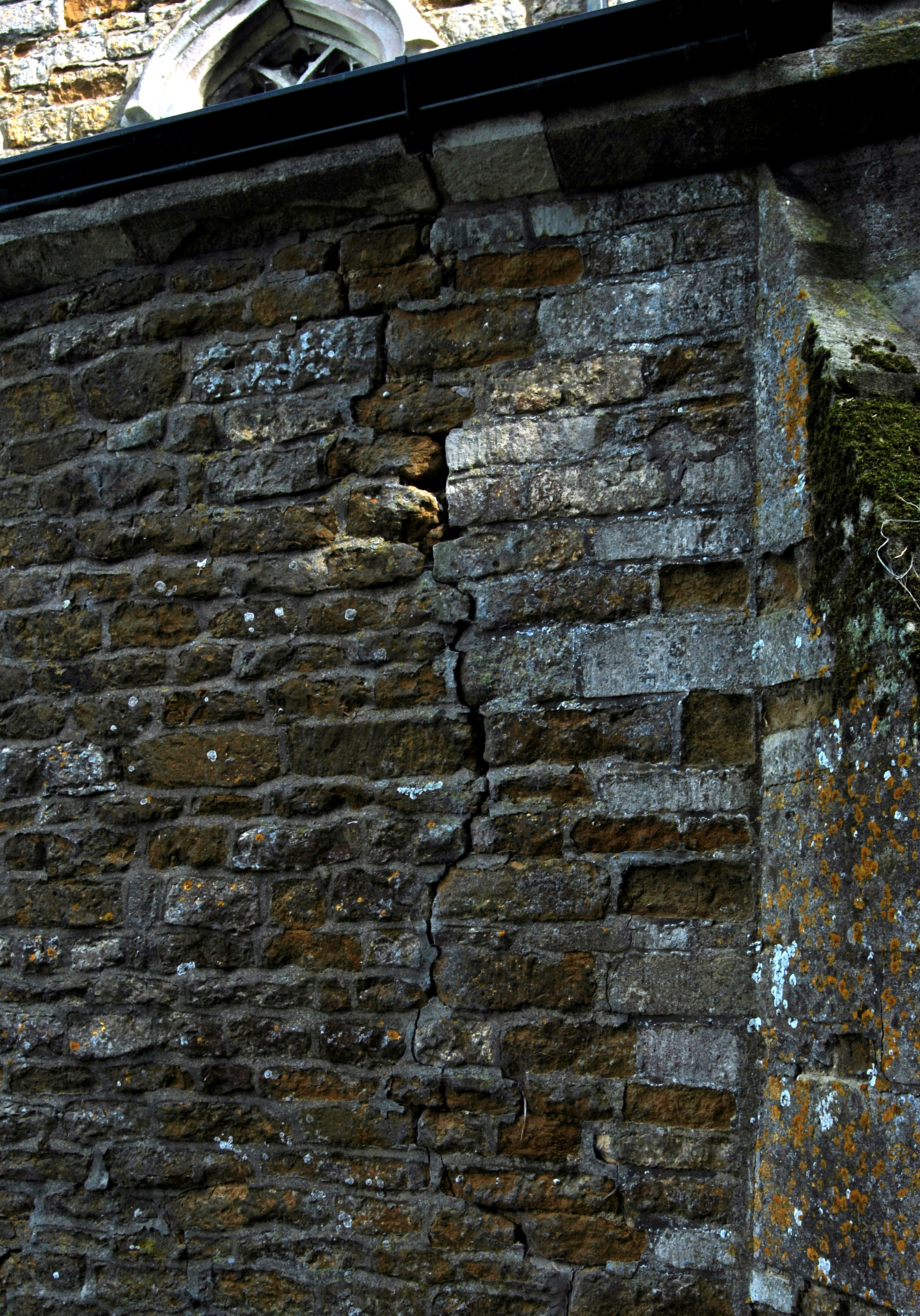 St Mary's parish church, Freeby, Leicestershire: crack in a wall of the north aisle